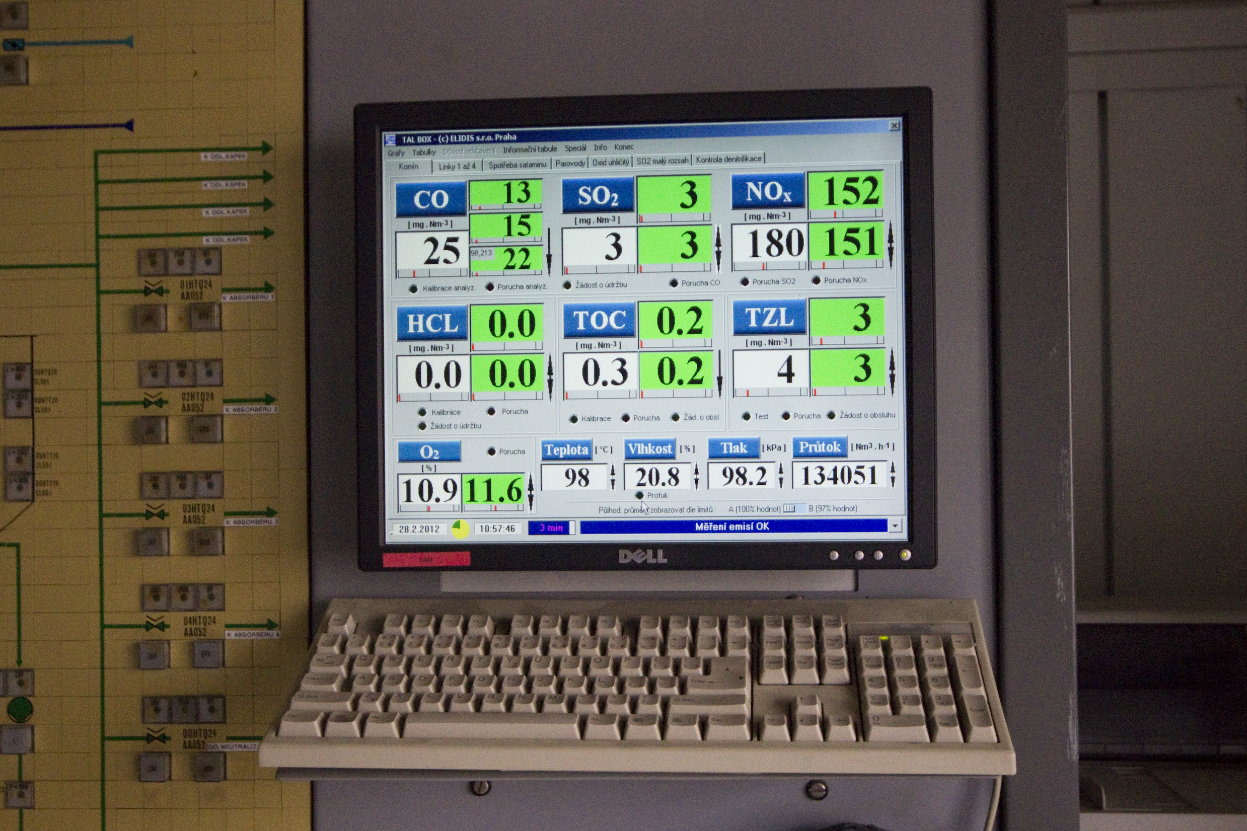 Malešice incinerator, Prague Tato série fotografií vznikla za laskavého svolení společnosti Pražské služby